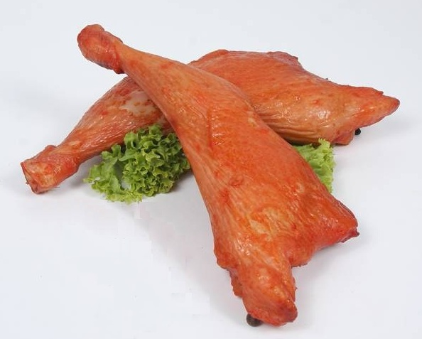 Traditional Romanian delicatessen made with chicken legs